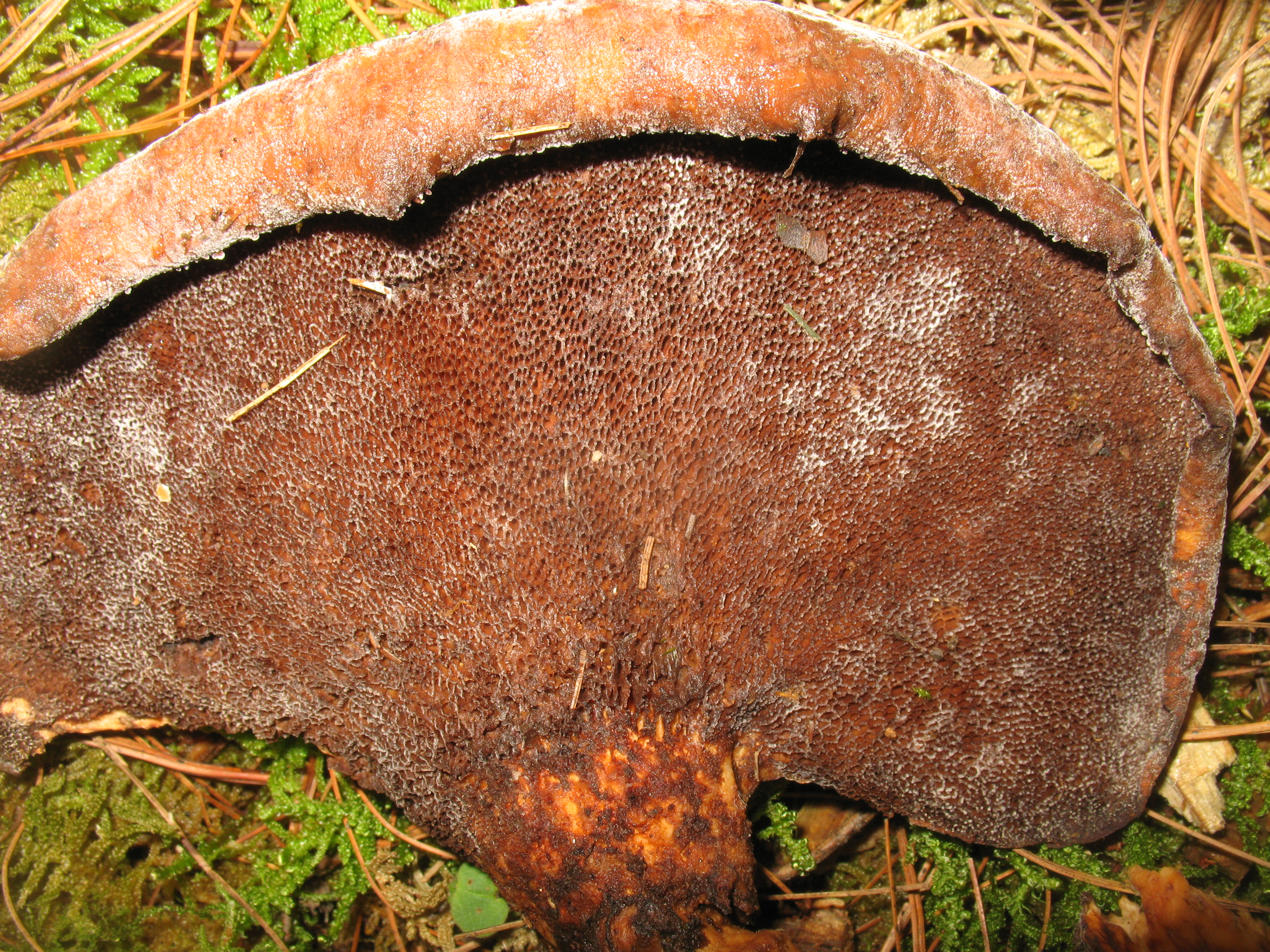 The polypore fungus Echinochaete brachypora. "Notes: On display at the 11th Annual Fungus Fair in Senguio, Michoacan, Mexico."